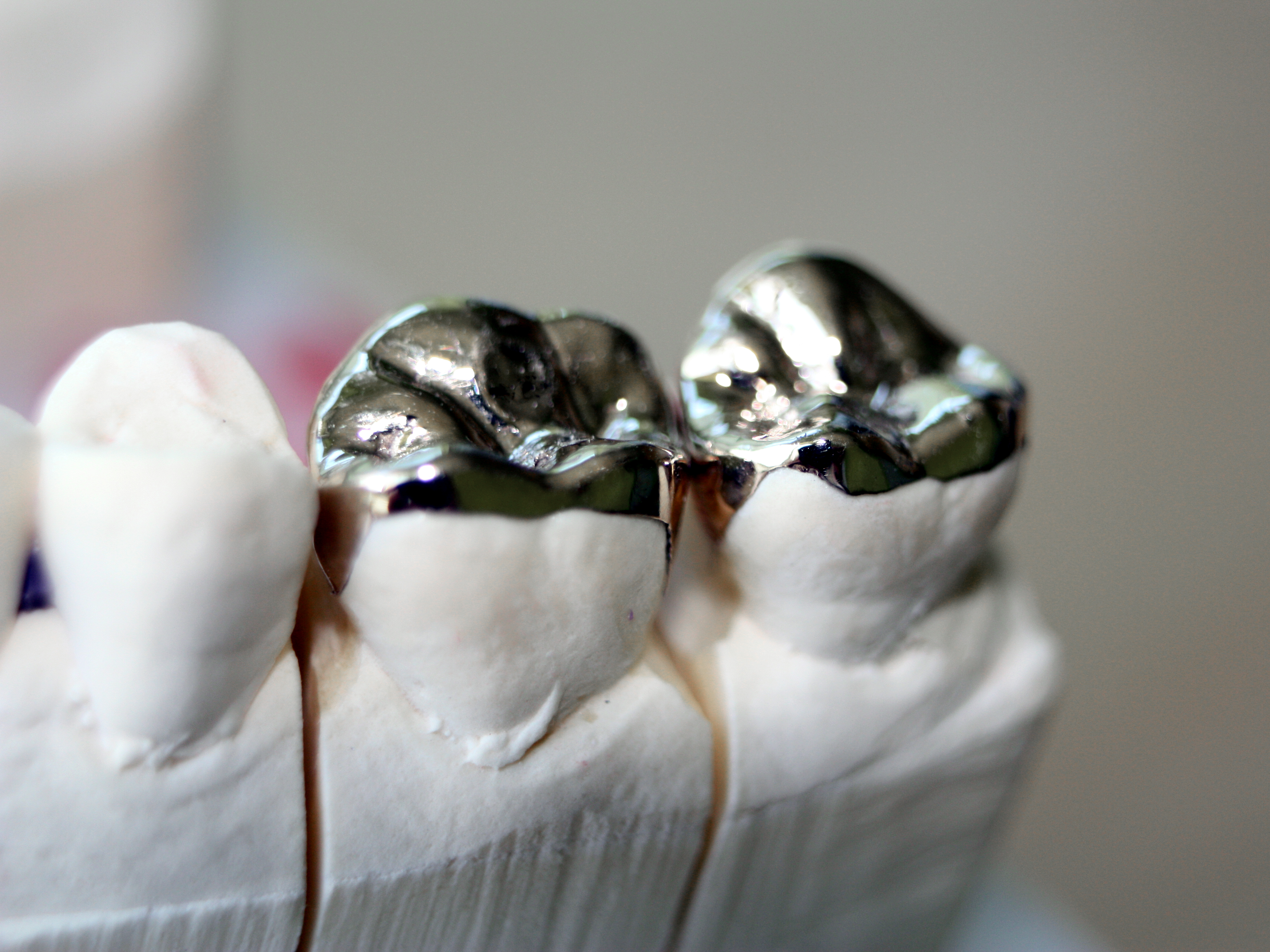 Dental crown, Teilkrone, Prämolar